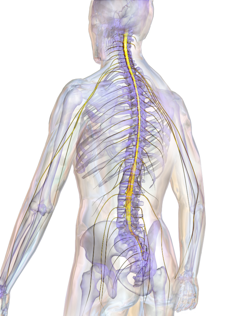 Spinal Cord. See a full animation of this medical topic.